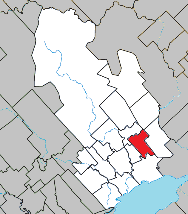 Location of Saint-Barnabé, Quebec within Maskinongé Regional County Municipality.